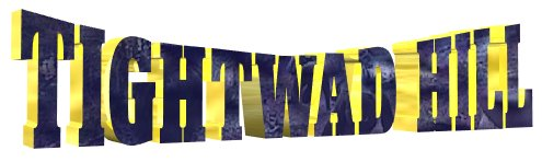 Tightwad Hill logo based off Tightwad Hill sign.